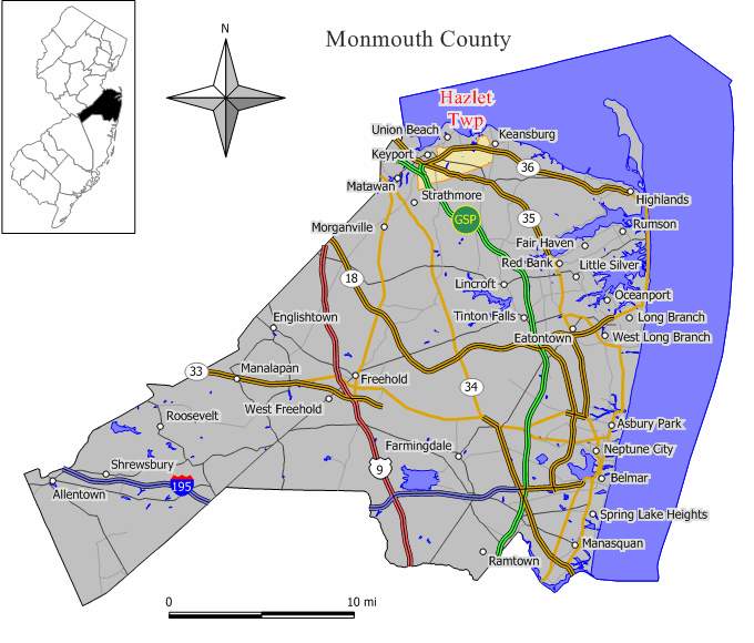 Source: Jim Irwin